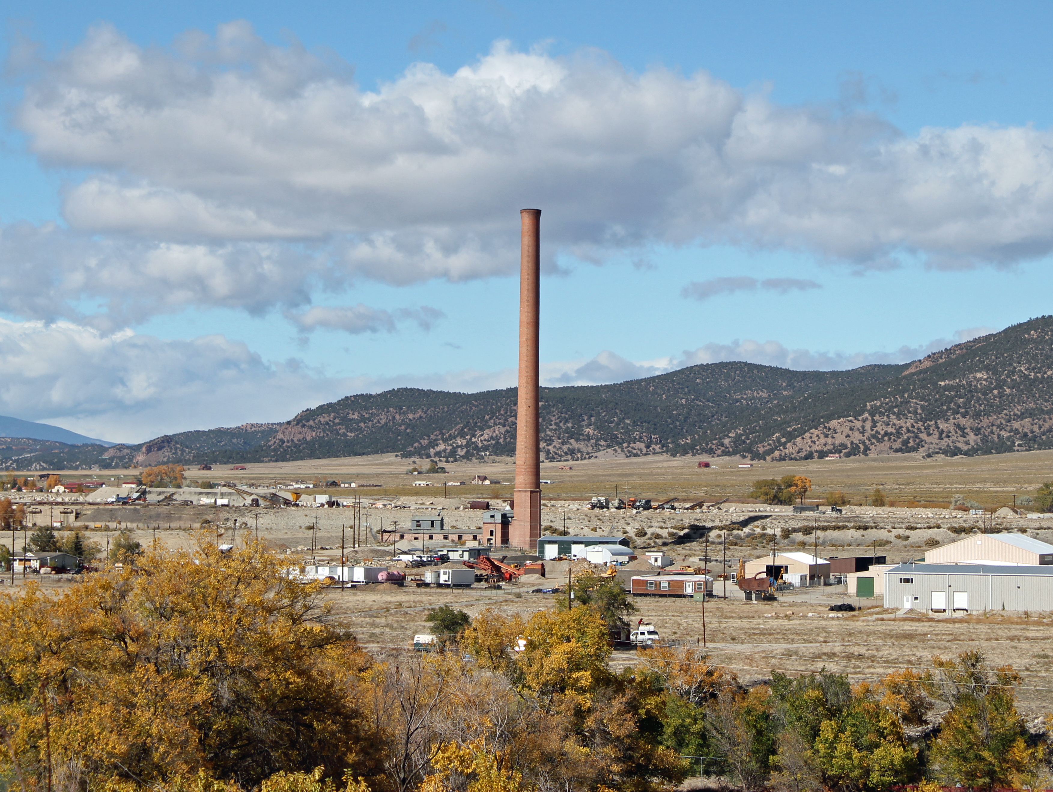 The Ohio-Colorado Smelting and Refining Company Smokestack, located near the intersection of Chaffee County roads 150 and 152 in Smeltertown, near Salida, Colorado.